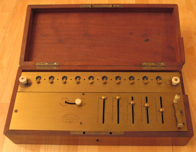 One of the first Arithmometers with unique serial number (around 1865)